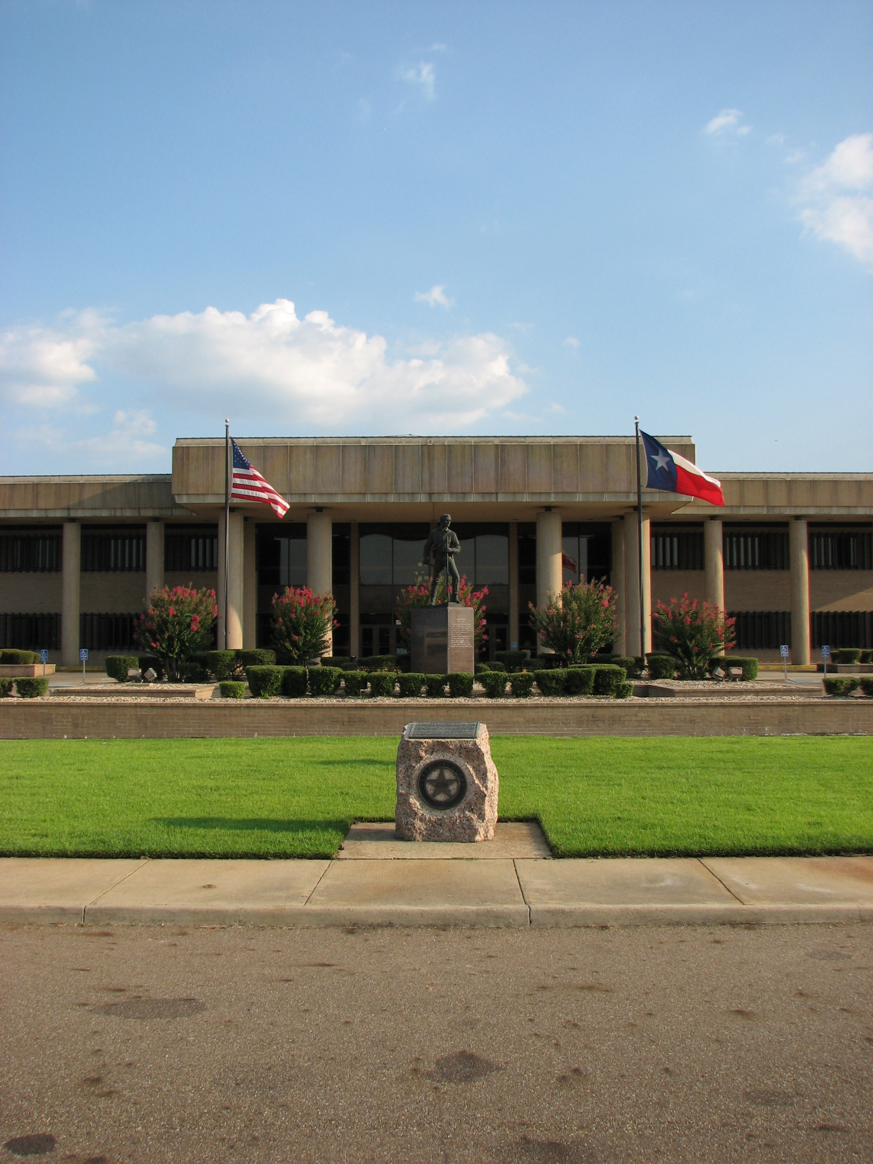 Bowie County Courthouse. State Highway Department Texas Historical Marker is in the foreground.